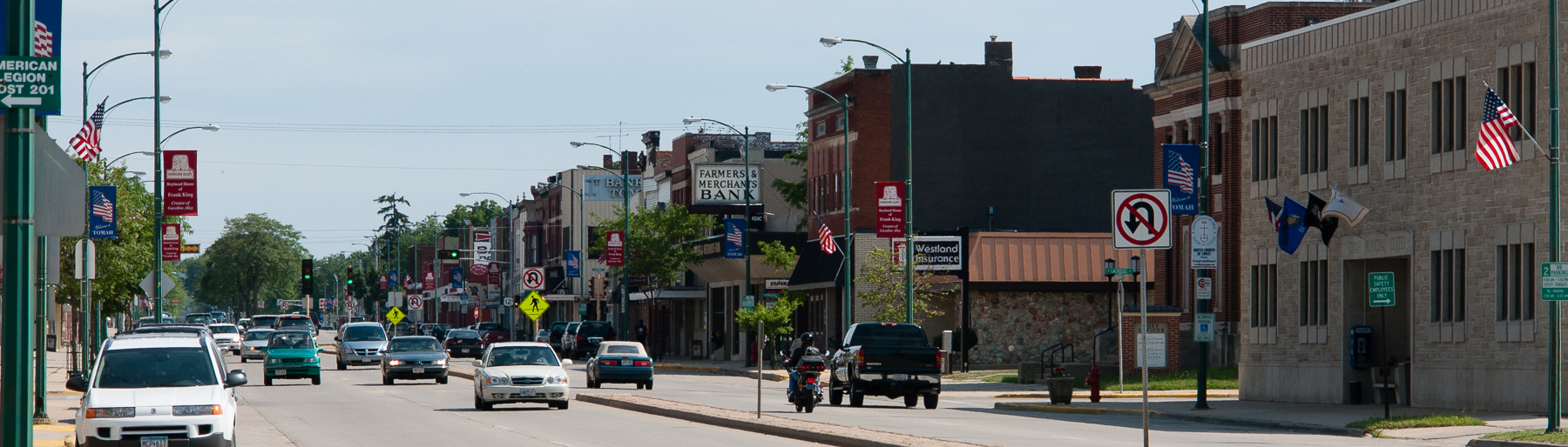 Downtown Tomah, looking south on Superior Avenue. City Hall and Public Safety Building are on the right. Two oldest banks are at the center.